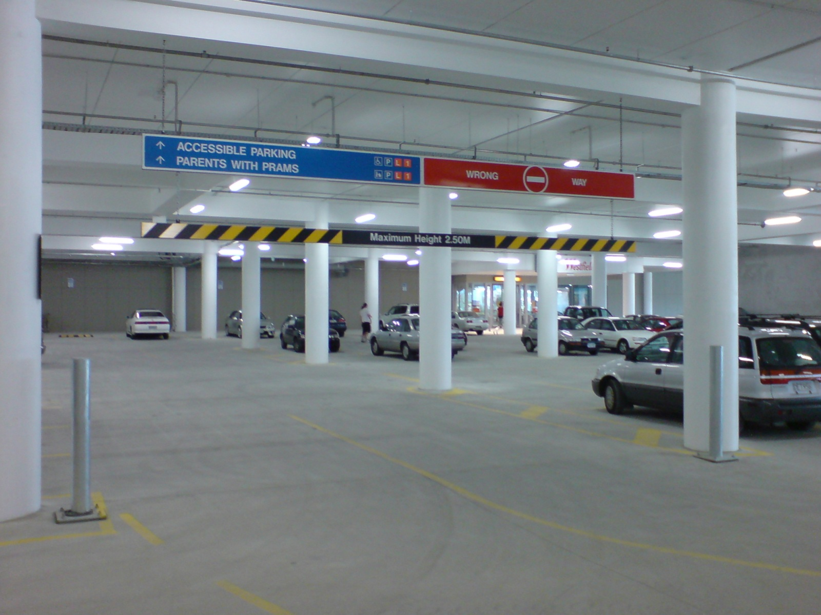 A part of the parking areas (Cinema undercroft) of Westfield Albany. Looking south.